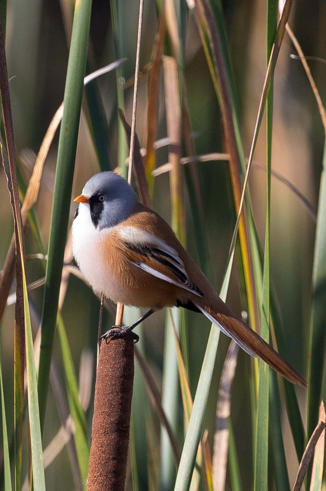 A male Bearded Reedling at Oare Marshes Nature Reserve, Kent, England.